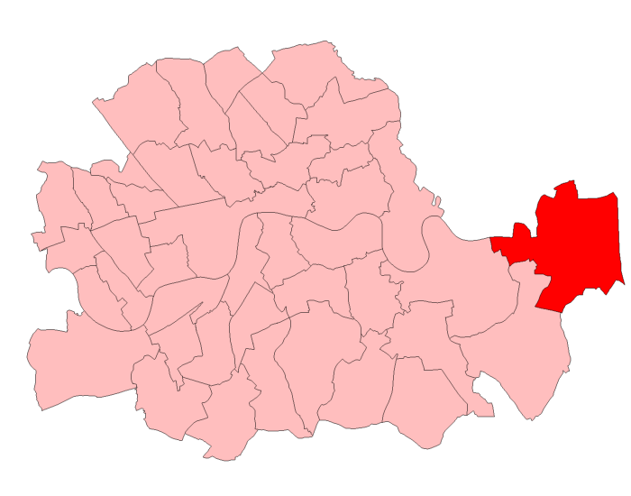 A map of Woolwich East constituency within the London County Council area, as it existed from 1950 to 1974.